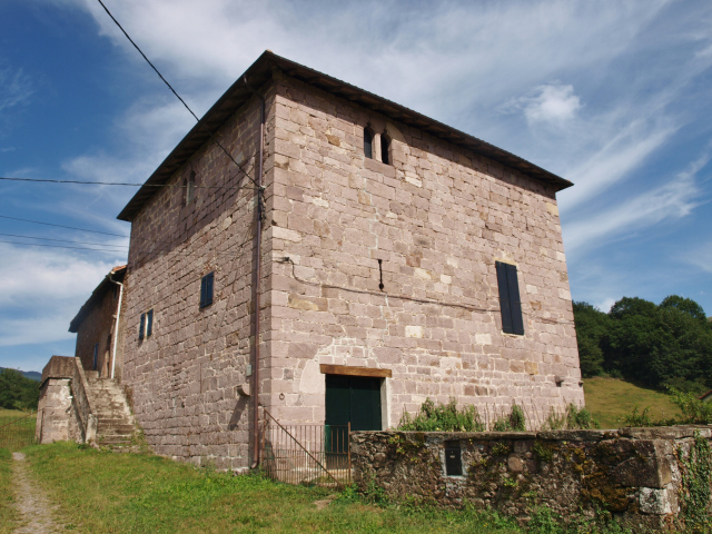 Bergara tower, Arizkun, Baztan. Navarre, Basque Country.